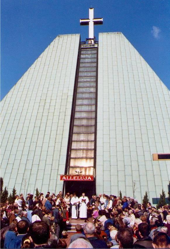 Eugène de Mazenod church at Kędzierzyn.